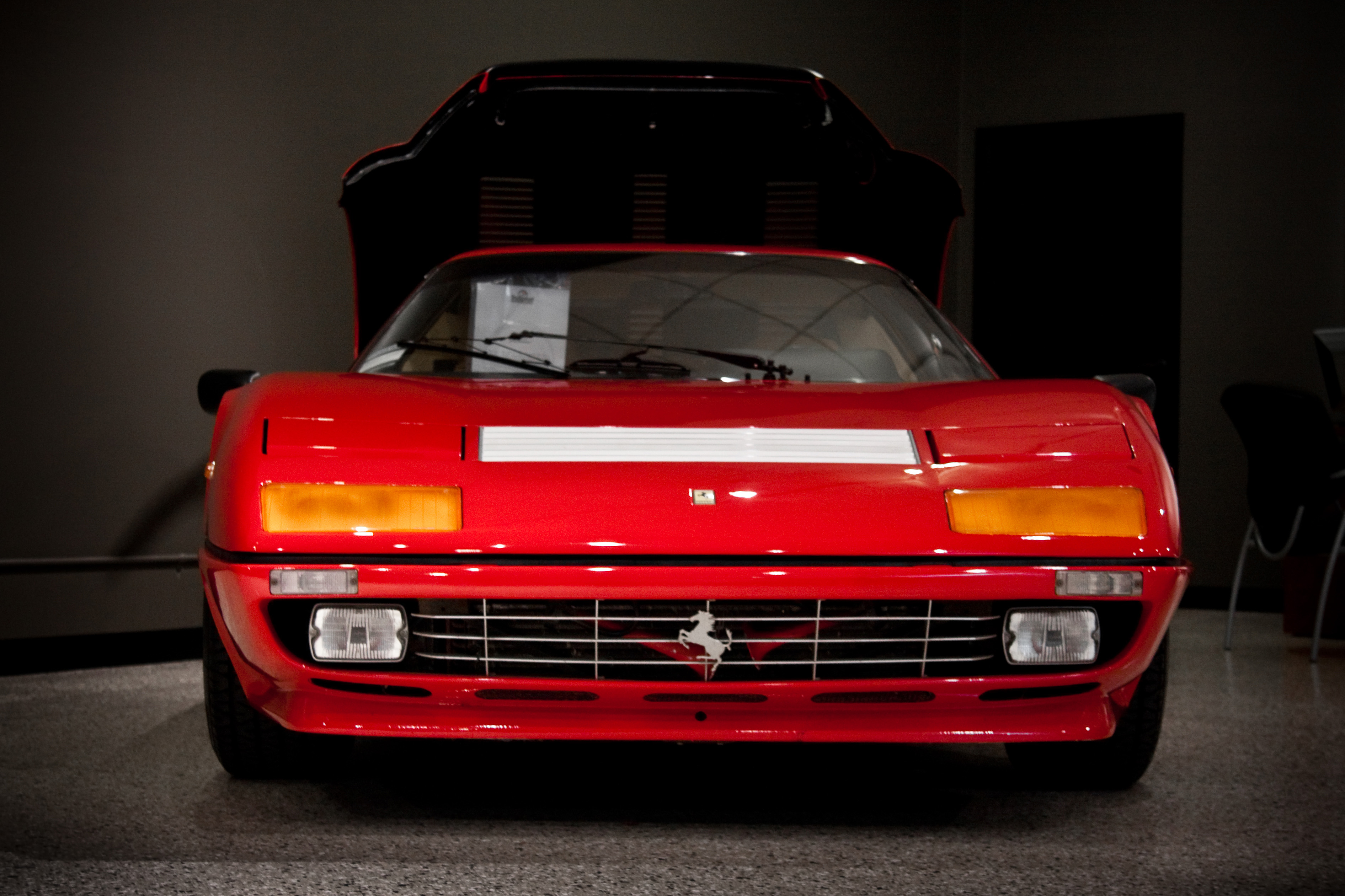 Ferrari Berlinetta Boxer